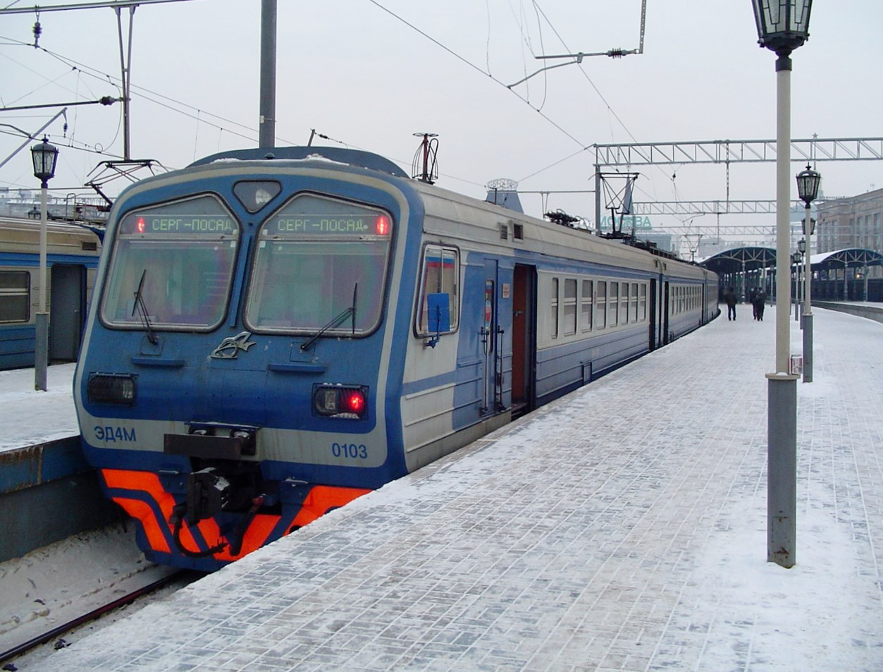 Elektrichka (suburban train) ED4M-0103 on Moscow's Yaroslavl Station.